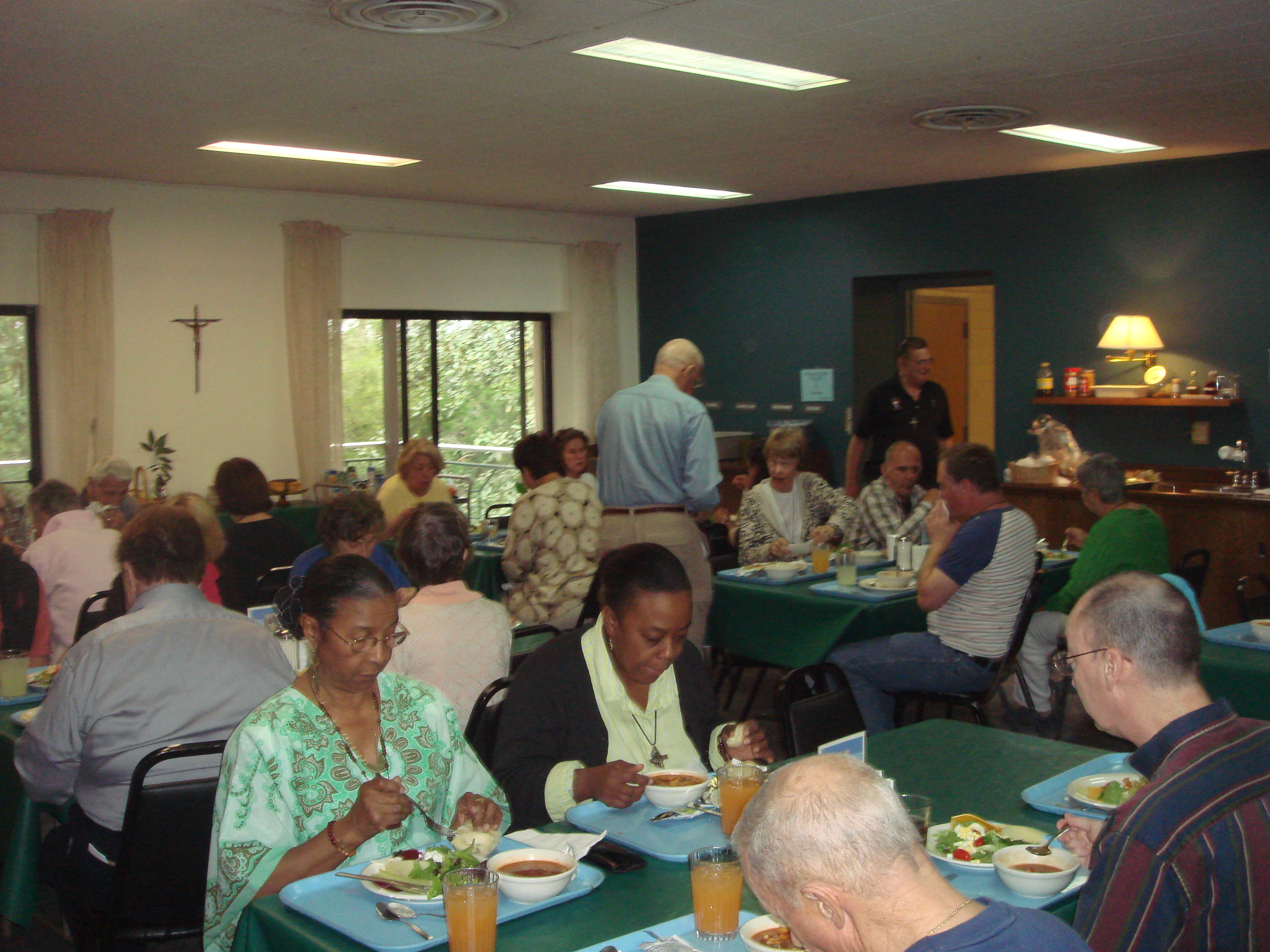 Guests at Holy Spirit Monastery enjoying a meal in the Refectory